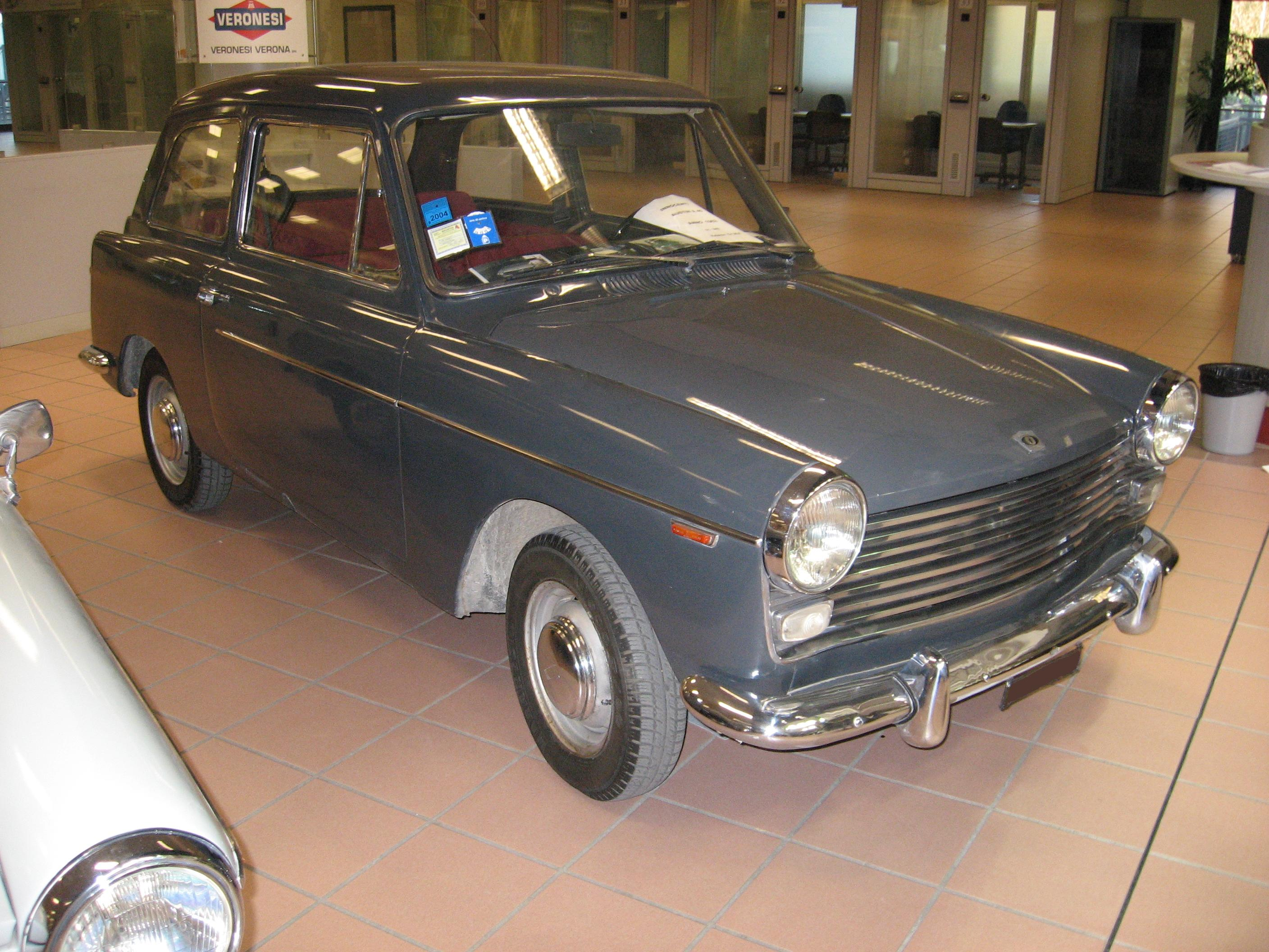 Subject: Innocenti A40 (also manufactured as Austin A40), front view Author: Luc106 Date: 18 march 2007 City/Country: Forlì (Italy) Event: Old Time Show I release all rights in the public domain.